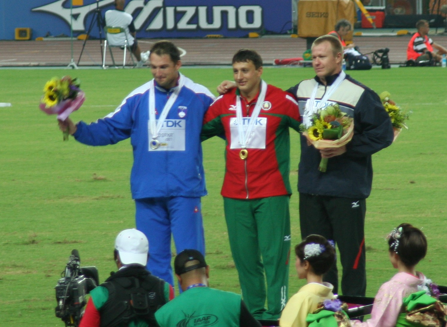 World Athletics Championships 2007 in Osaka - Victory Ceremony for Hammer Throw with winner Ivan Tikhan (middle), second Primoz Kozmus (left), third Libor Charfreitag (right)